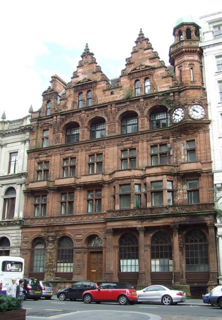 St Vincent Place. The building bears the inscription "Citizen Office". See also 940428.